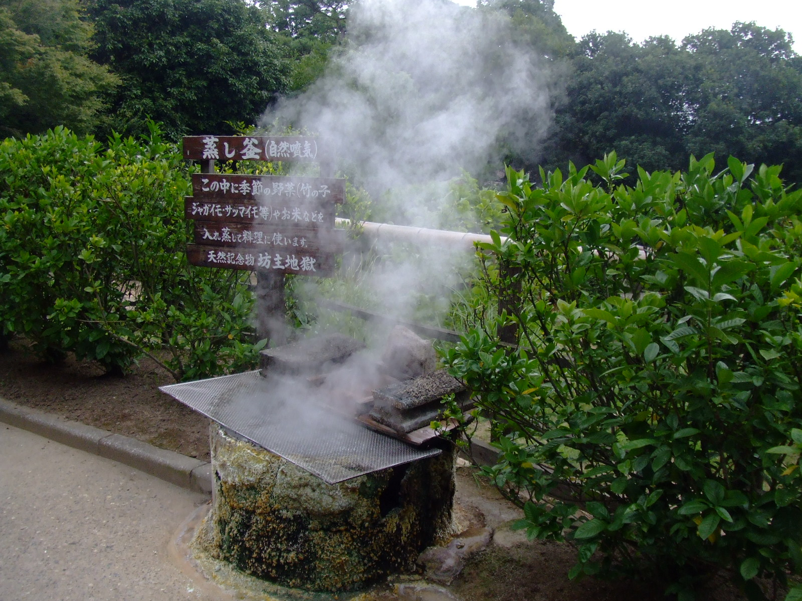 Jigokugama in